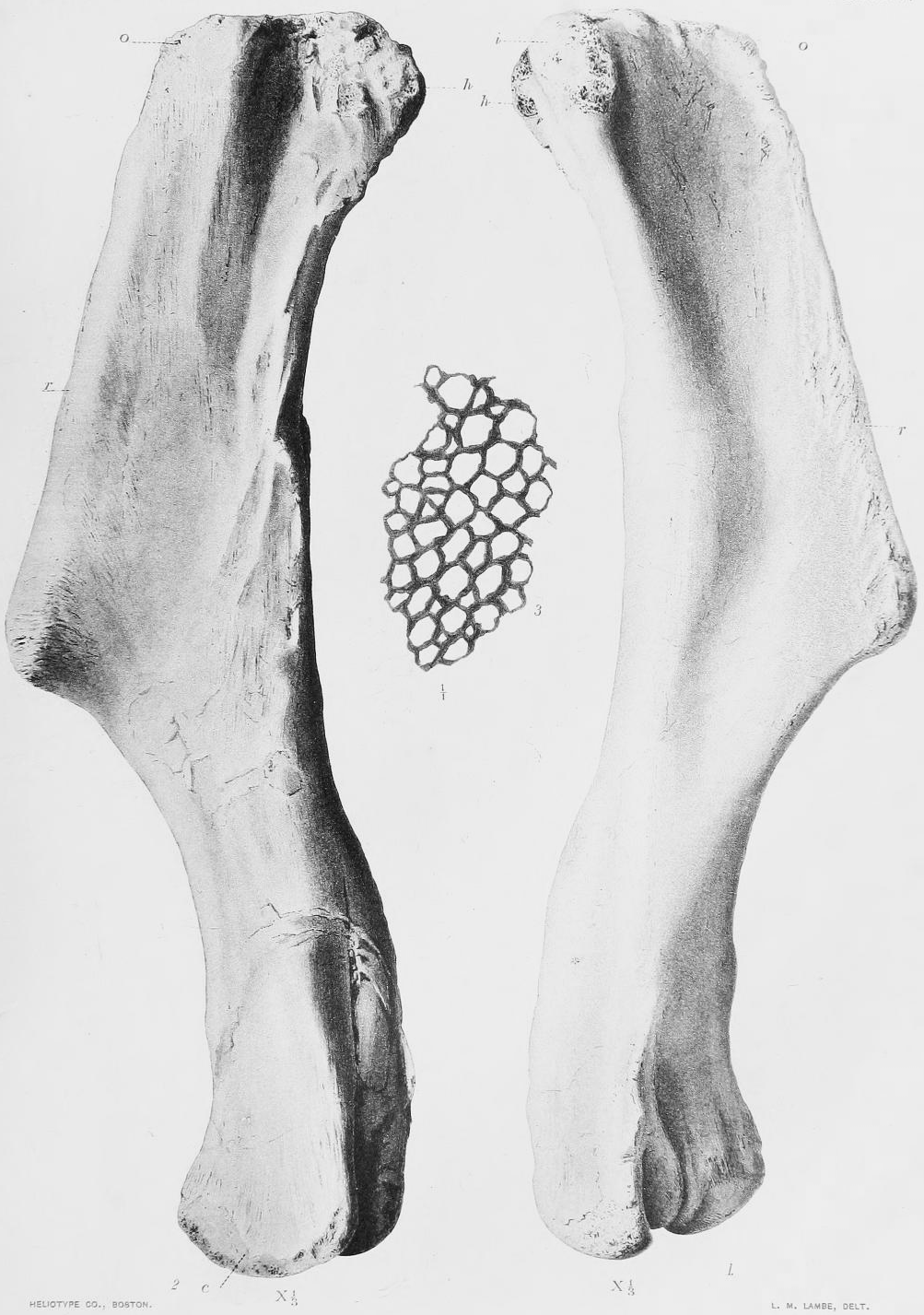 Trachodon (Pteropelyx) marginatus humerus and epidermis, humerus viewed from front and rear, skin impression as preserved.